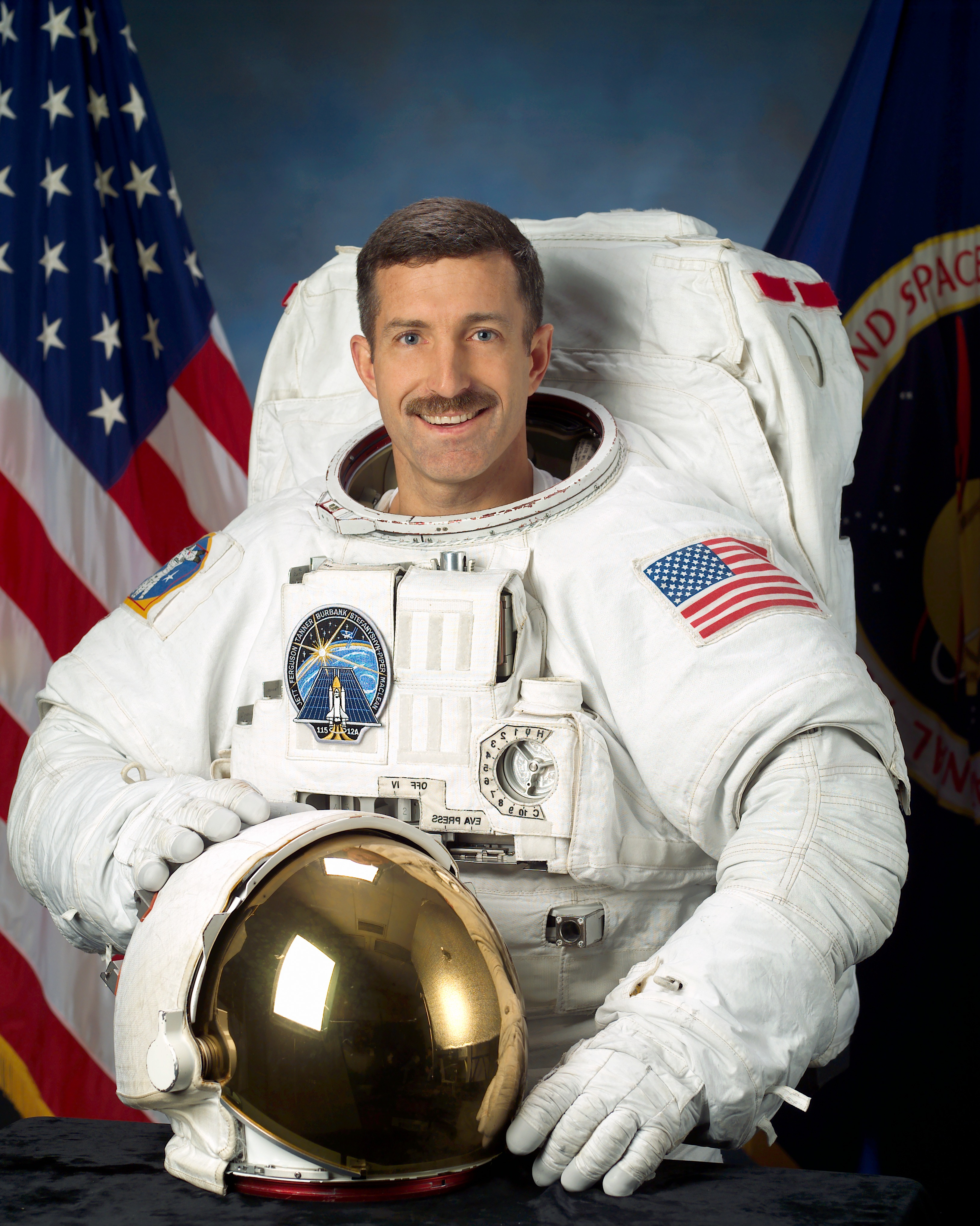 portrait of astronaut Daniel Burbank